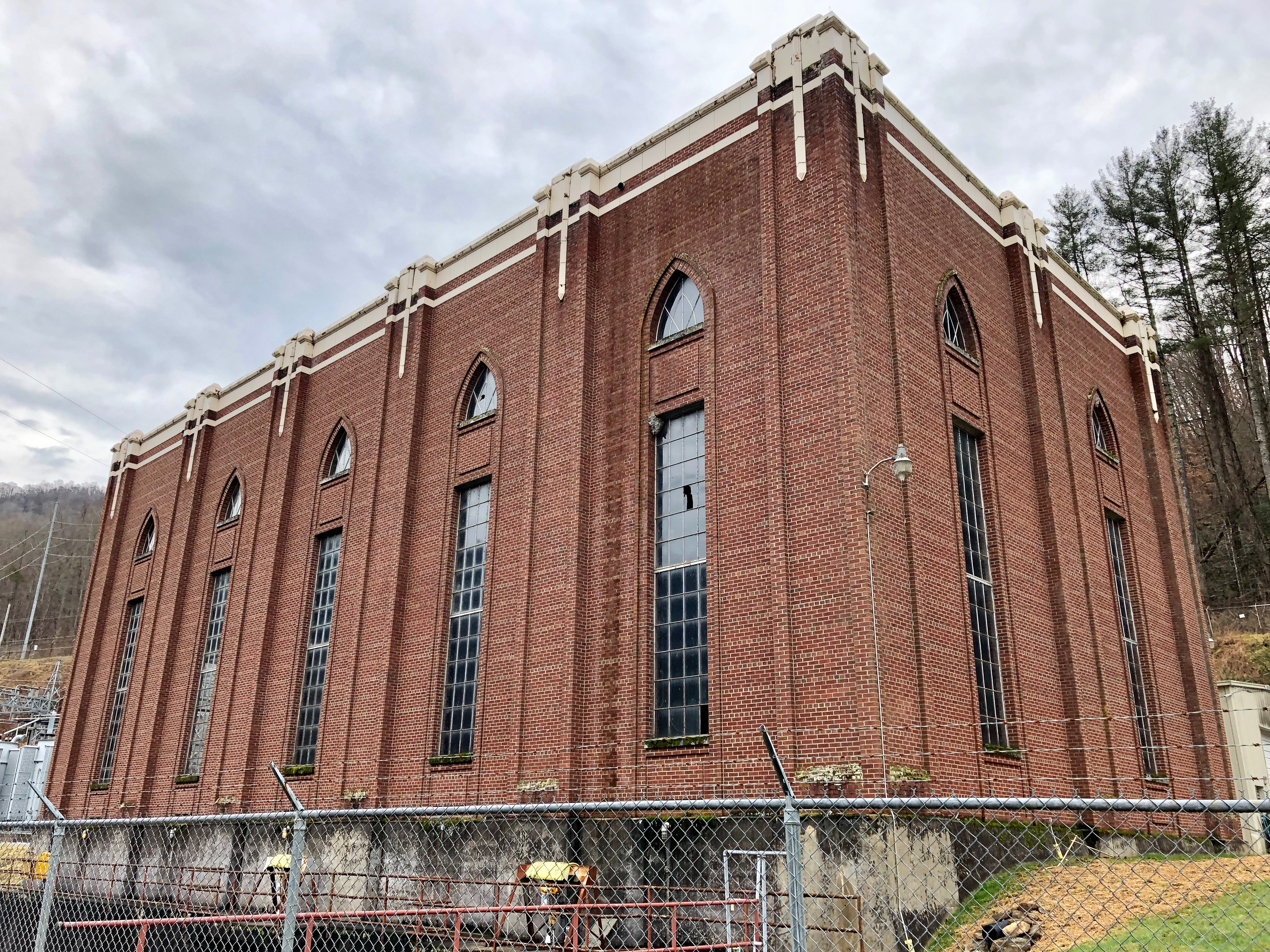 This is the Thorpe Power House, located on North Carolina Highway 107 in the Tuckaseigee River Gorge just above Tuckasegee, North Carolina. Constructed in 1940-41, the impressive structure combines elements of the Gothic Revival and Art Deco style, a rare combination in the area. The building remains in use as an active power station, powered by water falling from Lake Glenville high above.